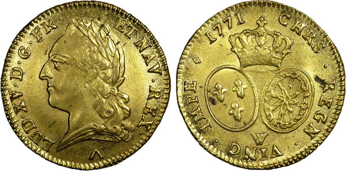 Double louis d'or de Louis XV dit "à la vieille tête" 1771 Lille